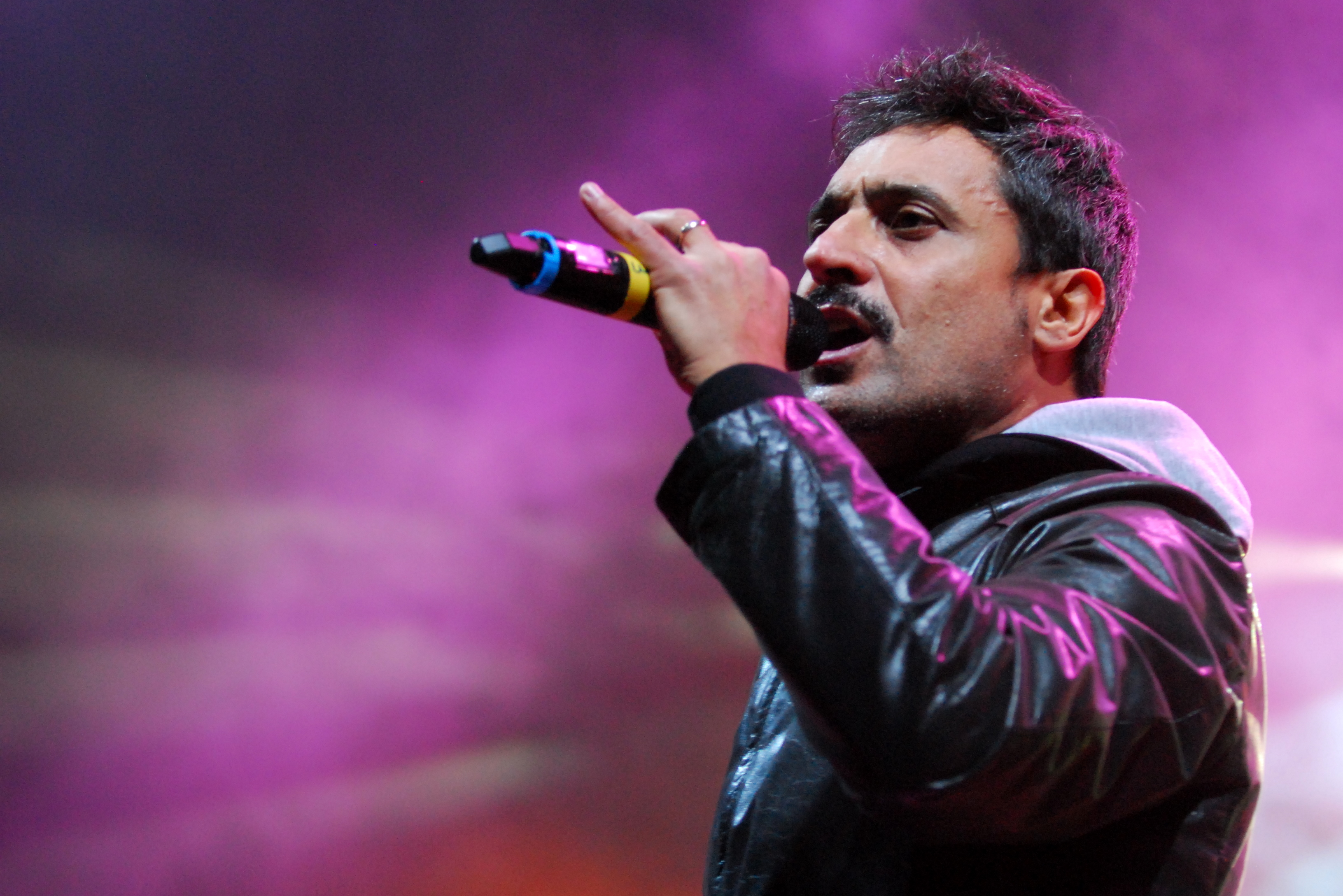 Giorgio Vanni singing at Lucca Comics and Games 2011